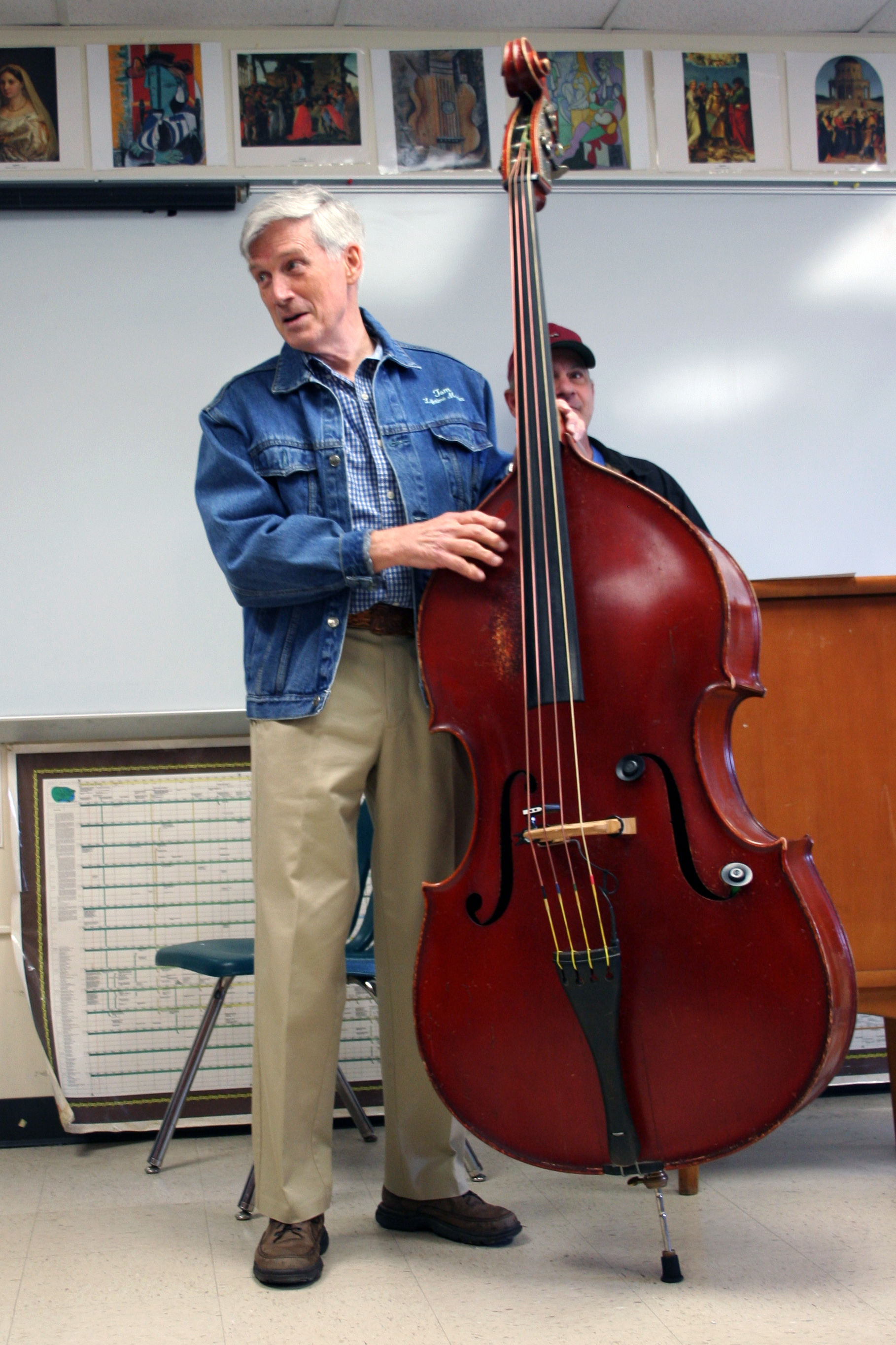 Bassist Tom Gray holding his bass while teaching at the DC Bass Strummit in McLean, VA.